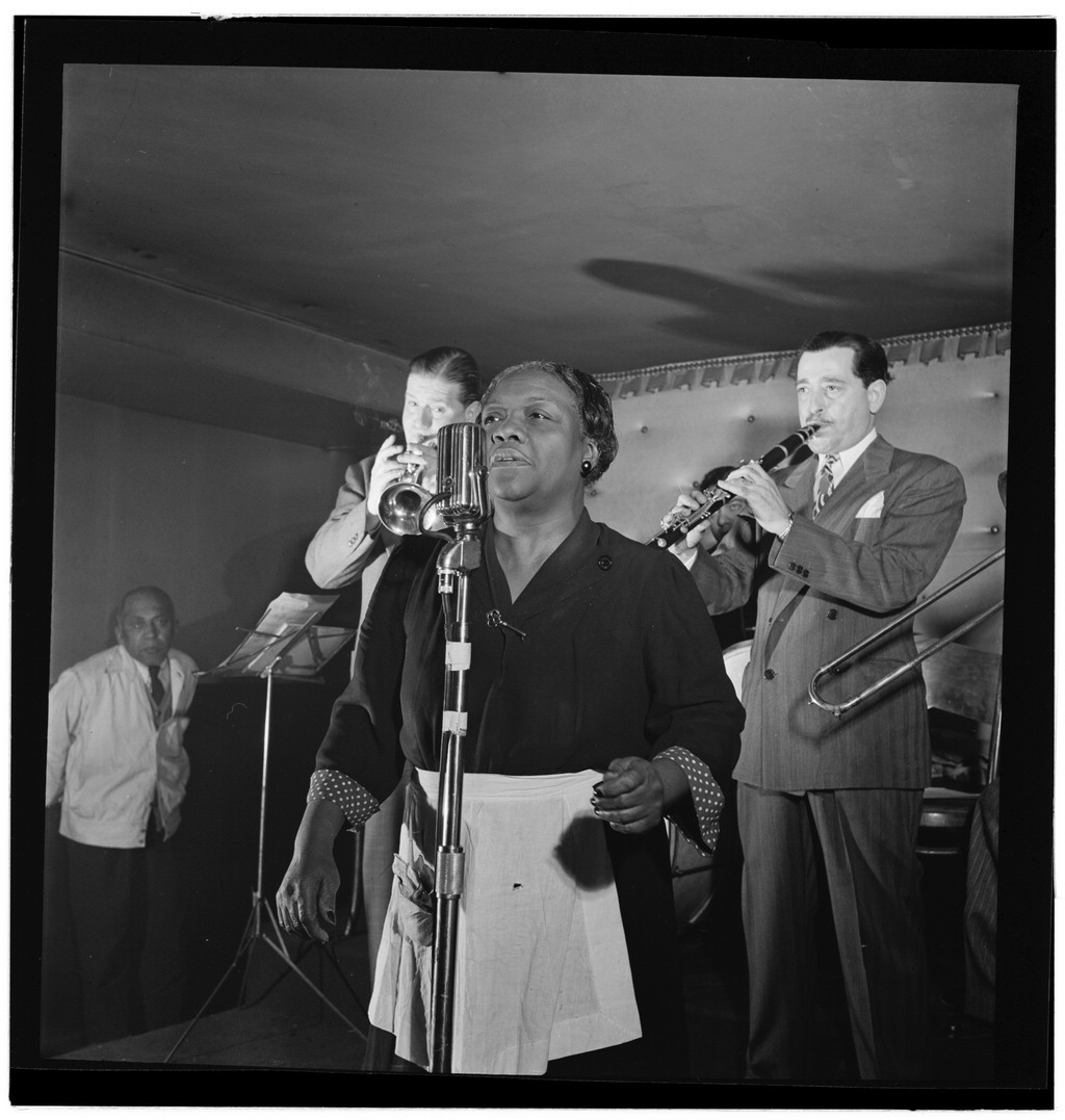 Gottlieb, William P., 1917-, photographer. [Portrait of Tony Parenti and Wild Bill Davison, Jimmy Ryan's (Club), New York, N.Y., ca. Aug. 1946] 1 negative : b&w ; 2 1/4 x 2 1/4 in. Notes: Gottlieb Collection Assignment No. 041 Purchase William P. Gottlieb Forms part of: William P. Gottlieb Collection (Library of Congress). Subjects: Parenti, Tony, 1900-1972 Davison, Wild Bill, 1906- Jazz musicians--1940-1950. Women jazz musicians--1940-1950. Jazz singers--1940-1950. Clarinetists--1940-1950. Fifty-second Street (New York, N.Y.)--1940-1950. Jimmy Ryan's (Club) Format: Portrait photographs--1940-1950. Group portraits--1940-1950. Film negatives--1940-1950. Rights Info: Mr. Gottlieb has dedicated these works to the public domain, but rights of privacy and publicity may apply. Repository: (negative) Library of Congress, Prints & Photographs Division, Washington D.C. 20540 USA, Part Of: William P. Gottlieb Collection (DLC) 99-401005 General information about the Gottlieb Collection is available at Persistent URL: Call Number: LC-GLB23- 1471 This work is from the William P. Gottlieb collection at the Library of Congress. Rights and restrictions. In accordance with the wishes of William Gottlieb, the photographs in this collection entered into the public domain on February 16, 2010.